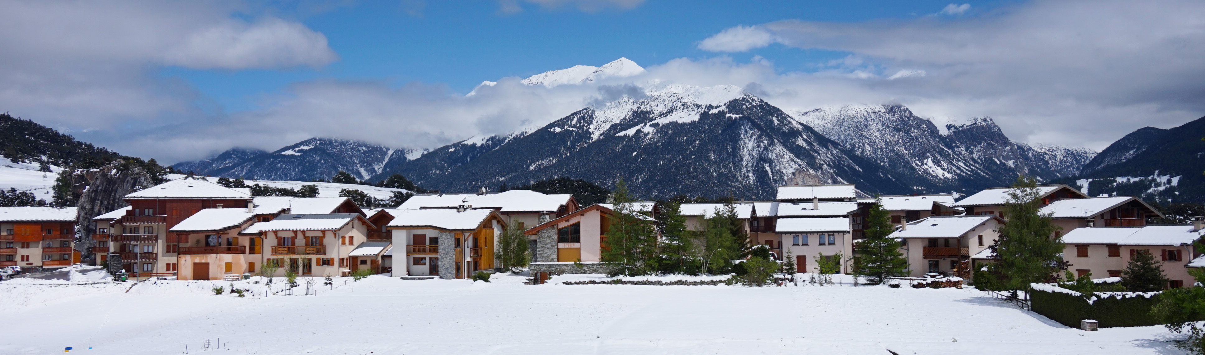 View in Aussois and mountain, France.This photograph was taken with a Sony ILCE-5000